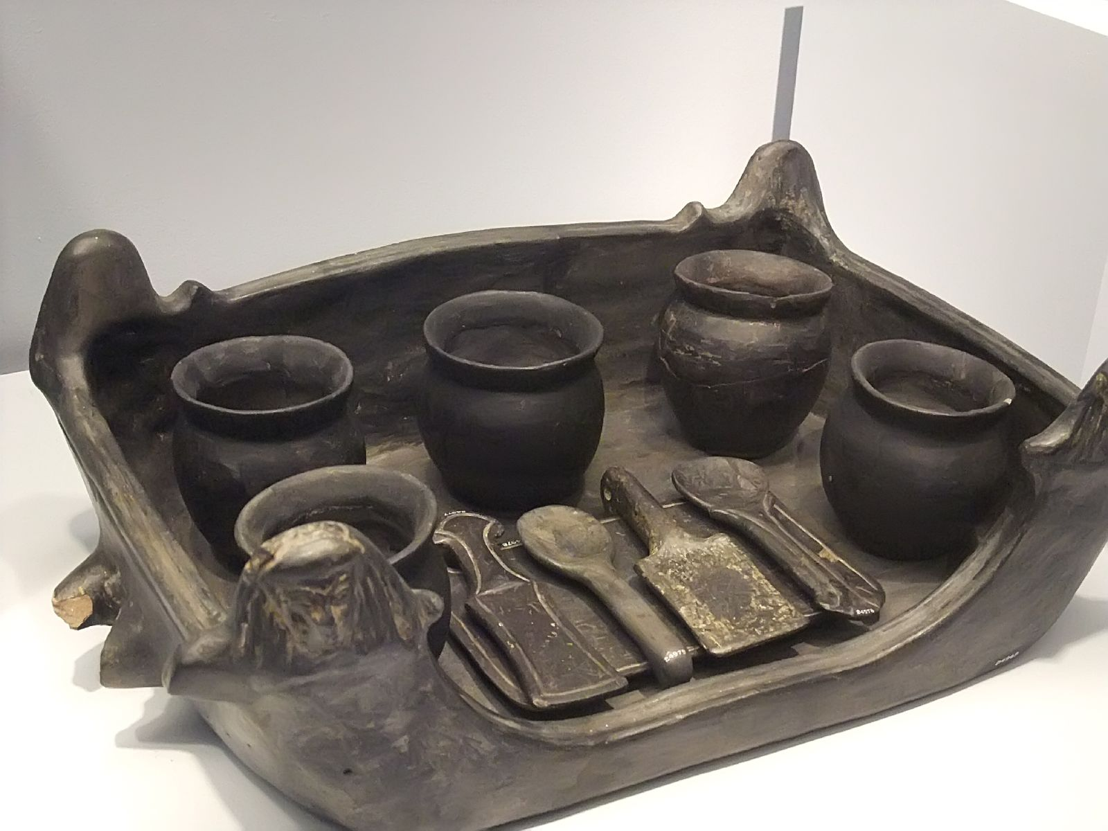 Photographed at the Art Institute of Chicago, Chicago, Illinois. Item on loan from the Field Museum.